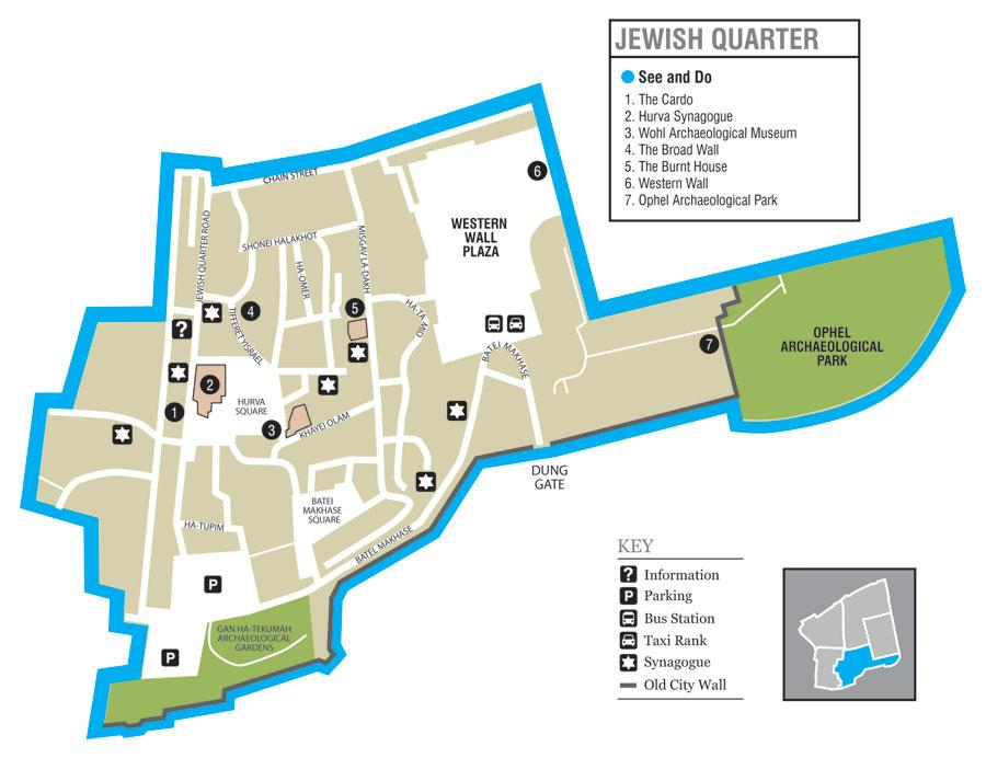 A map of Jerusalem's Jewish Quarter by David Bjorgen, taken from